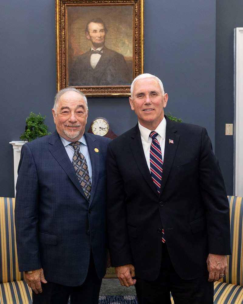 American radio host Michael Savage poses for a photo with Vice President Mike Pence after they discussed Savage's book God, Faith, and Reason.